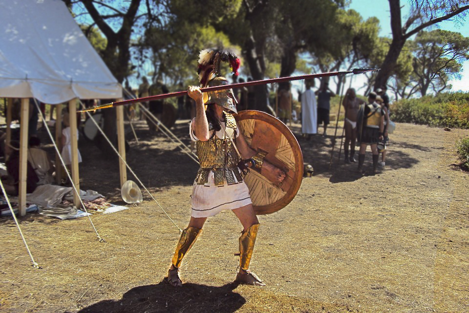 Hoplite recreation by Christian Cameron